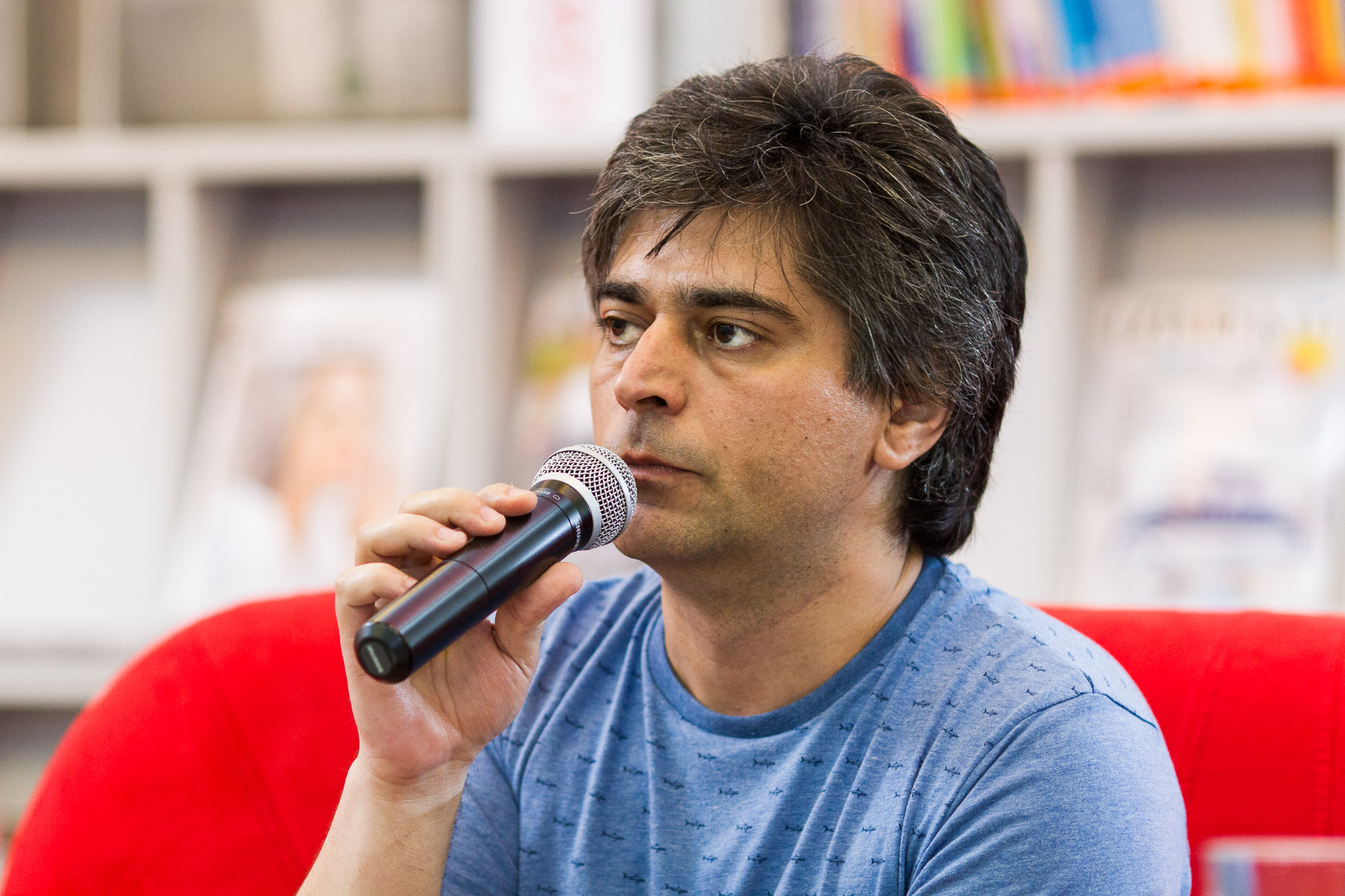 Oleksandr Boychenko on Authors’ Reading Month 2015, Wrocław, Poland